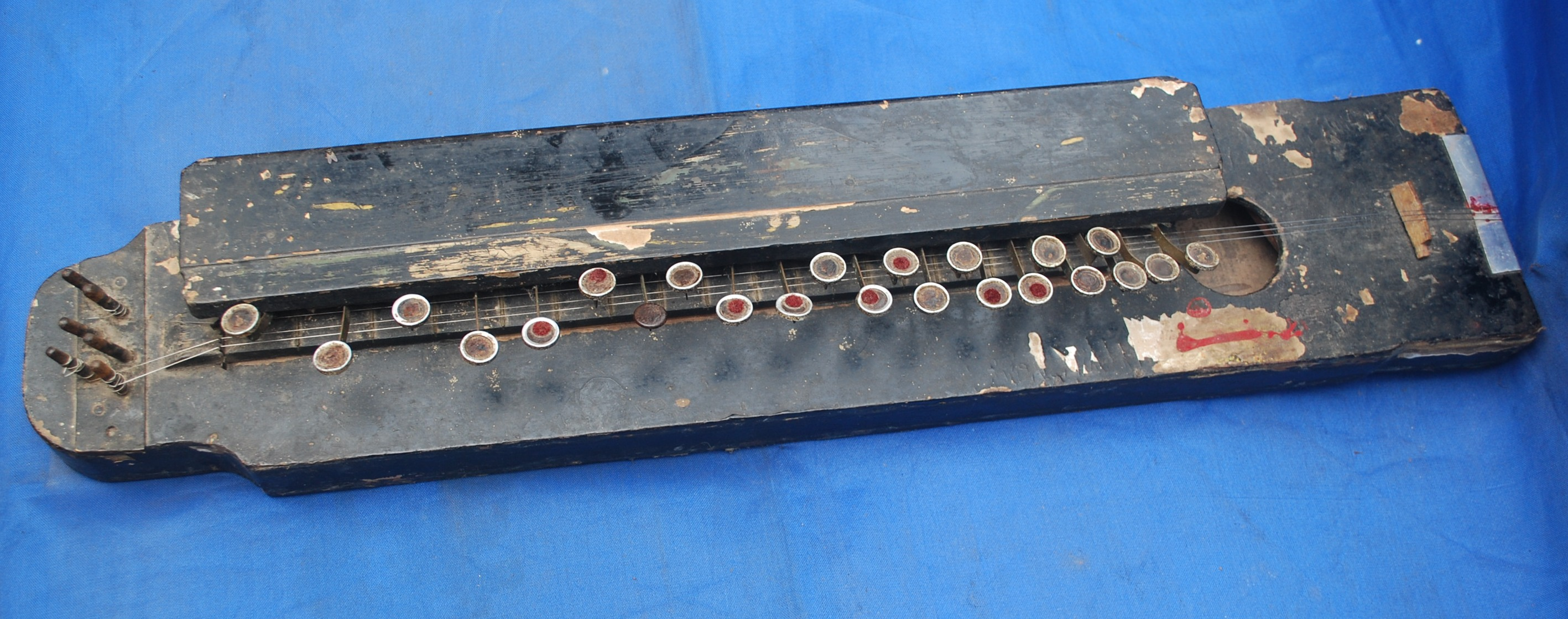 A musical string instrument in India and Pakistan